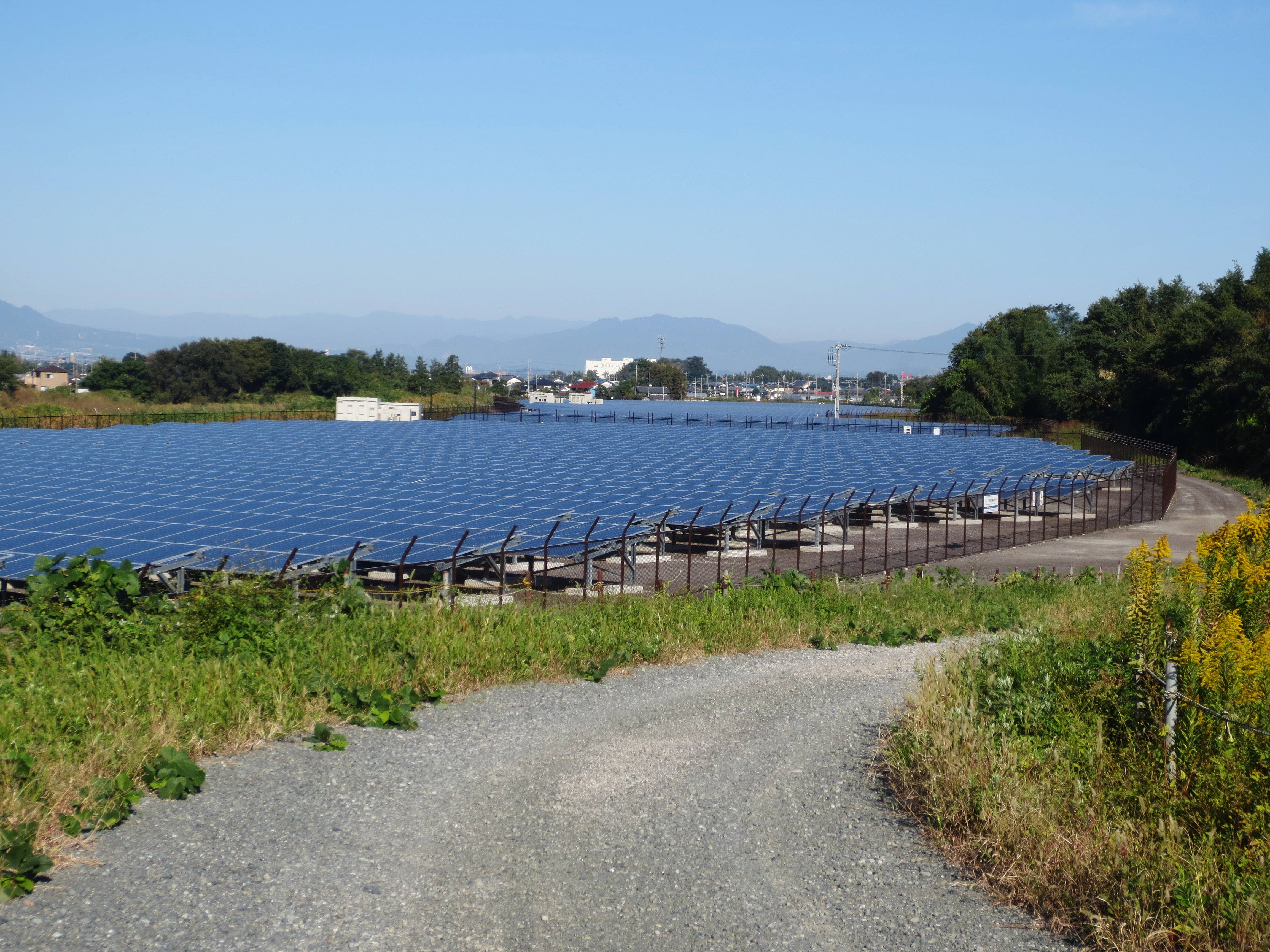 Sharp Isesaki Solar Power Plant.